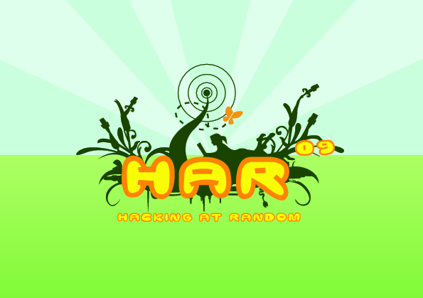 File:HAR2009_Canonical_logo.png